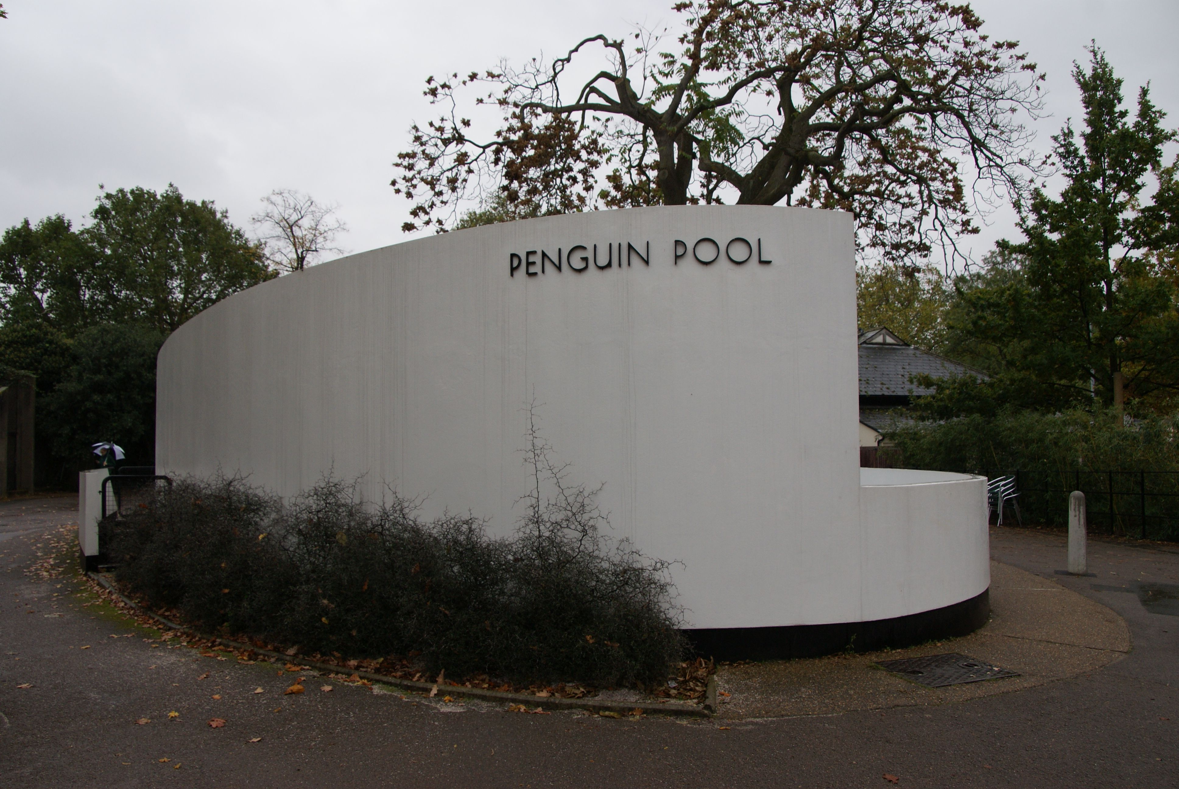 Grade 1 listed Penguin pool, London Zoo, England. Now a water feature and not used to keep Penguins.